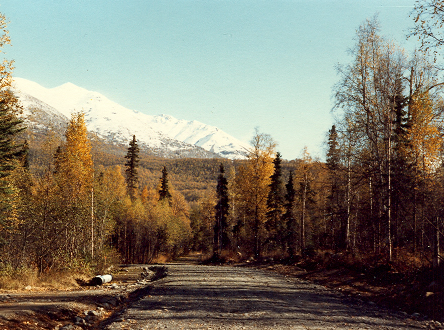 Needles Drive in Chugiak Alaska, Chugach Mountains in background.